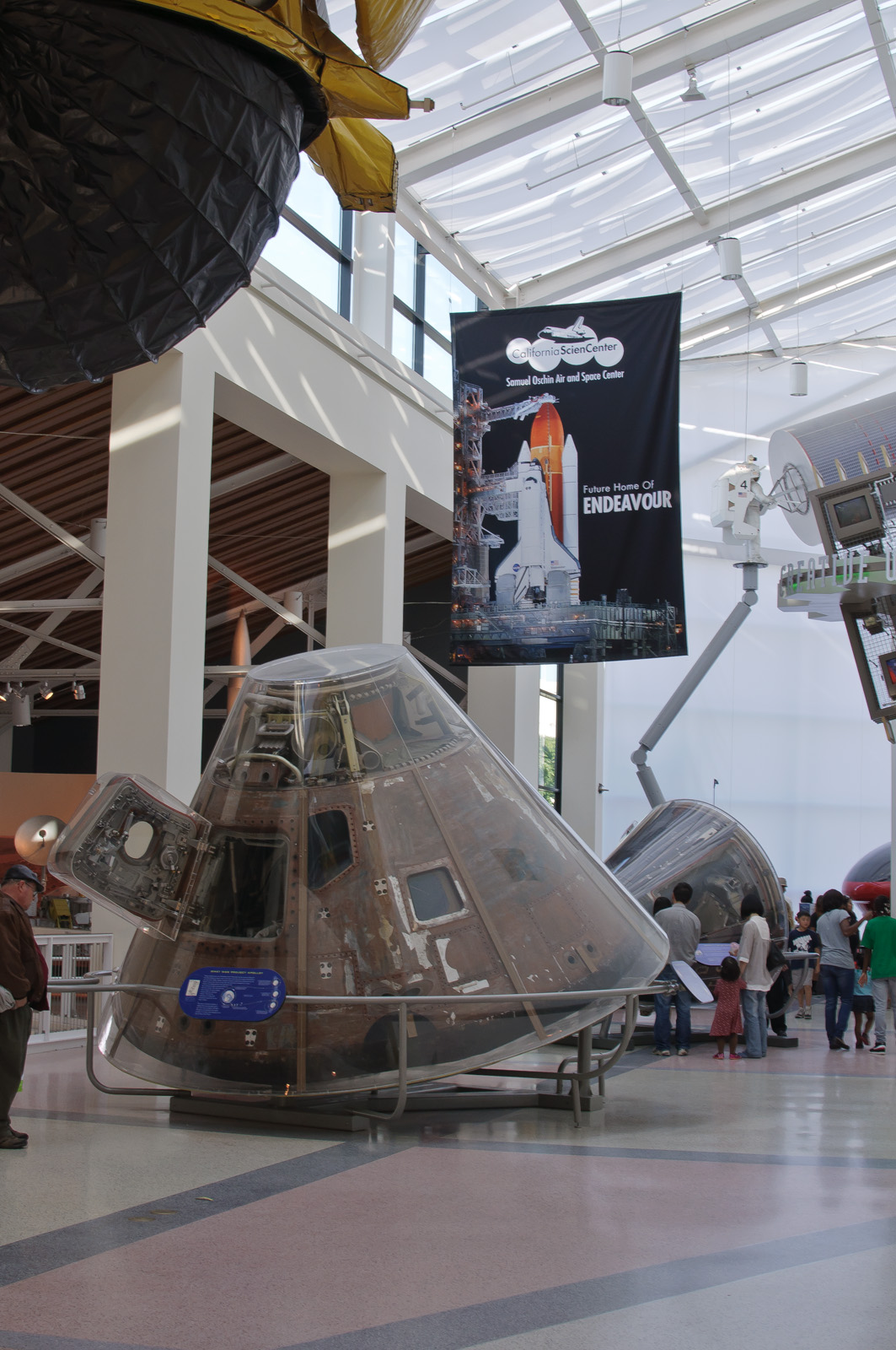 Paying a visit to California Science Center on Saturday, 13 October 2012, as I await its latest spacecraft arrival, Space Shuttle Endeavour, scheduled for the evening. (As it would turn out, the Space Shuttle would not arrive until midday the next day.) California Science Center already has other key American manned spacecraft, and adding Endeavour would very nicely complement the existing collection. In front is an Apollo command module; intended to be Apollo 18 and flown to the moon in 1973, it instead became a spare when Apollo was terminated after Apollo 17, and it was launched on a smaller Saturn 1B rocket in 1975 for docking with a Russian Soyuz spacecraft. At the termination of the Apollo program, there were three spare Saturn V rockets and Apollo spacecraft, that would've allowed three extra trips to the moon; one of the surplus Saturn Vs was used to launch the Skylab space station, and the other two Apollo - Saturn V combinations are preserved at Johnson Space Center in Houston and Kennedy Space Center in Florida. Just behind the Apollo is the Gemini 11 capsule. Smaller than the Apollo, it had room for two astronauts, who lived aboard for two days; even the act of standing up would have required the opening of a hatch and a spacewalk. Behind the Gemini, and not visible, is a single-passenger Mercury capsule. This museum's Mercury is the Mercury-Redstone 2, which made a 16-minute suborbital space flight in 1961 with a chimpanzee on board, in preparation for a human flight. While this was not the first spaceship to fly with a live animal on board (the Soviets had Sputnik II, with a dog on board, in 1958), it was the first spaceship to bring that animal back alive (Sputnik II had no provisions for returning the dog to Earth alive - the dog died in orbit).